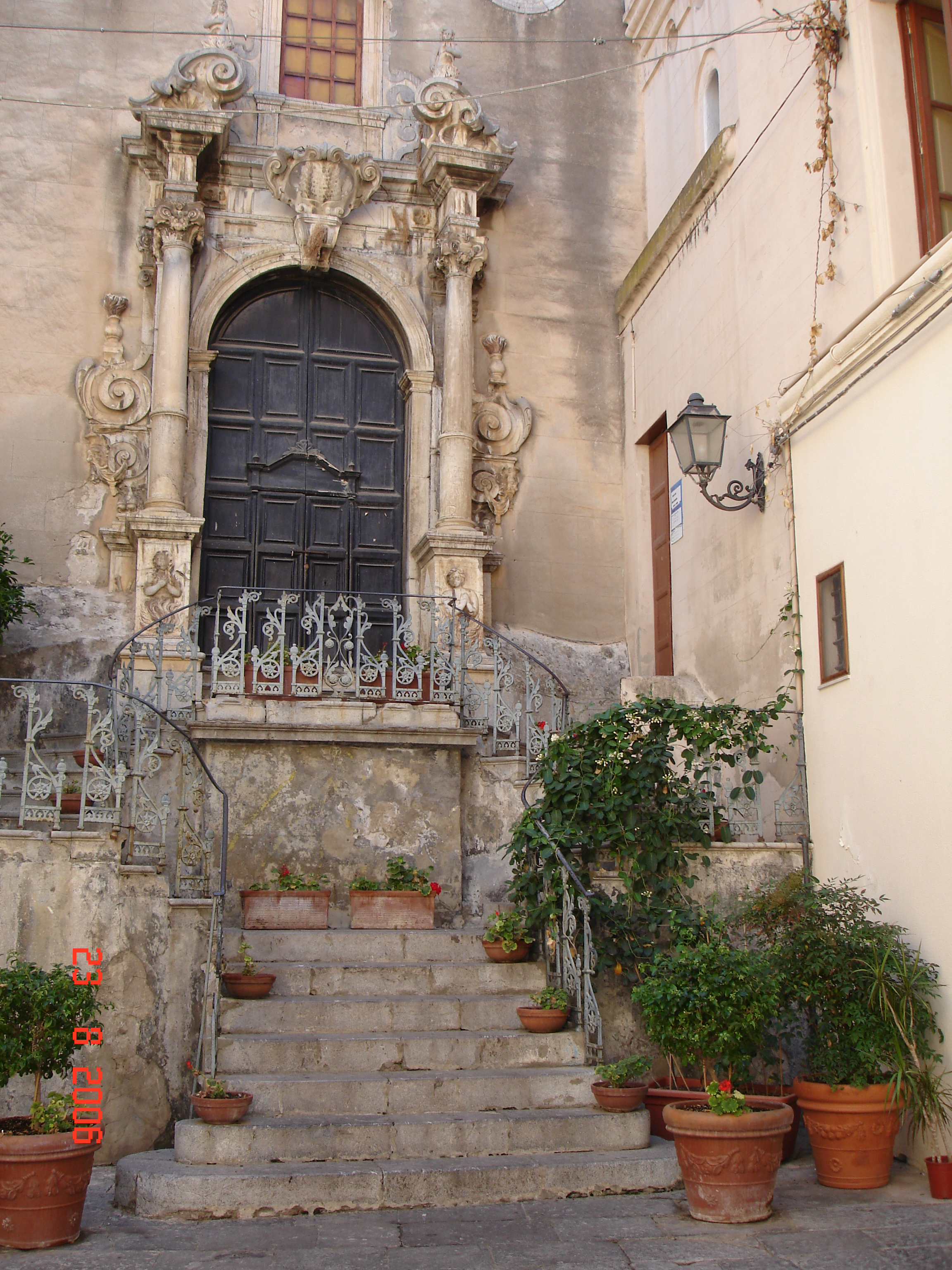 Church of Purgatorio in Cefalù